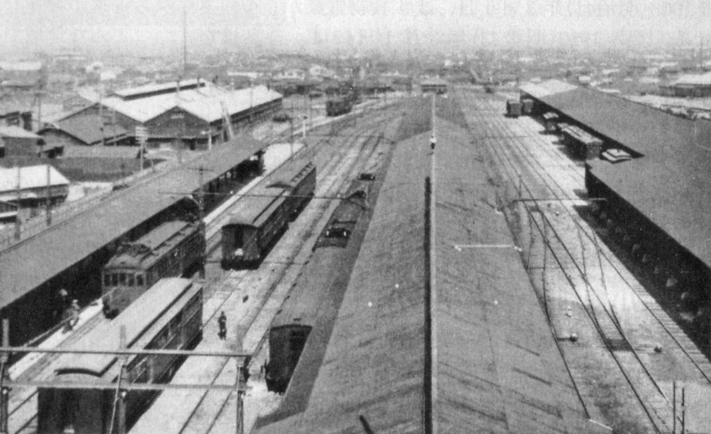 An overview of Asakusa Station (present-day Tokyo Skytree Station) on the Tobu Isesaki Line in Tokyo shortly after the completion of electrification in 1927. The platforms to the left are for local trains, with a DeHa1 type EMU car visible, the platforms in the middle are for long-distance trains, and the platforms on the right are for freight. The engine shed is visible in the distance at the top left of the photo.